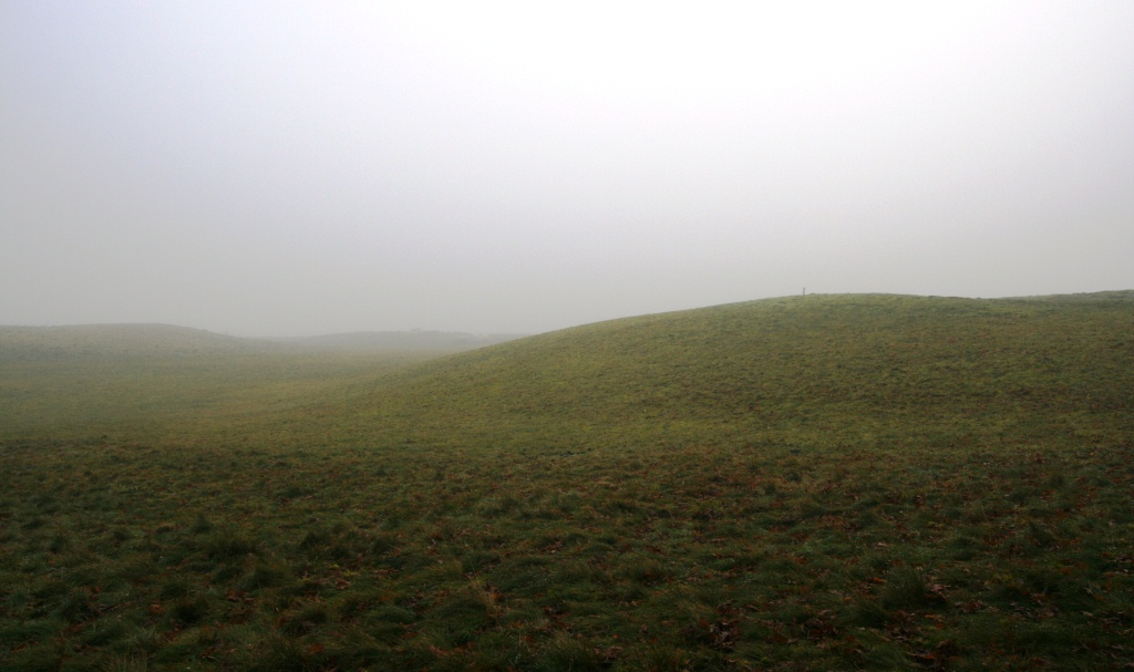 Sutton Hoo burial mound